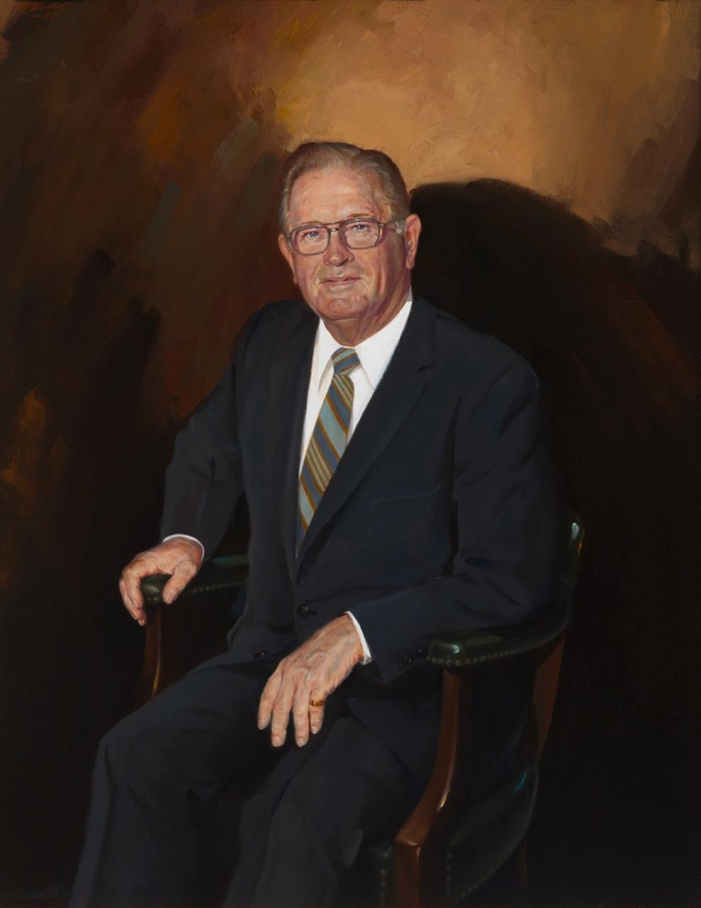 Portrait of former Congressman Jamie L. Whitten of Mississippi, 1983.